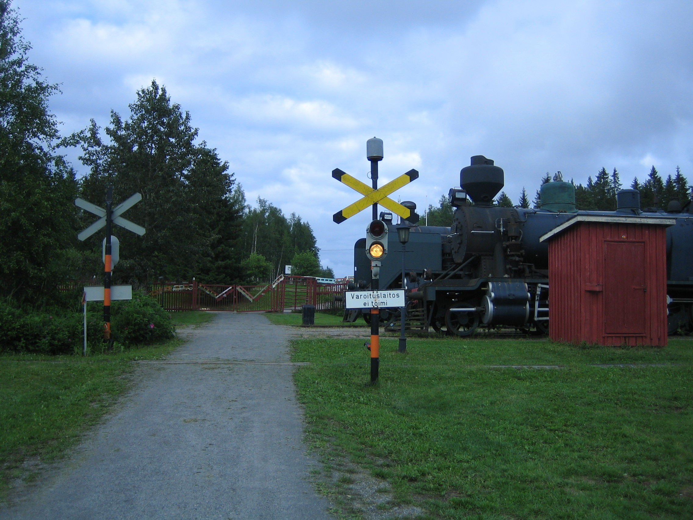 An old level crossing with warning lights at the Haapamäki steam locomotive museum (Haapamäen höyryveturipuisto) in Keuruu, Finland